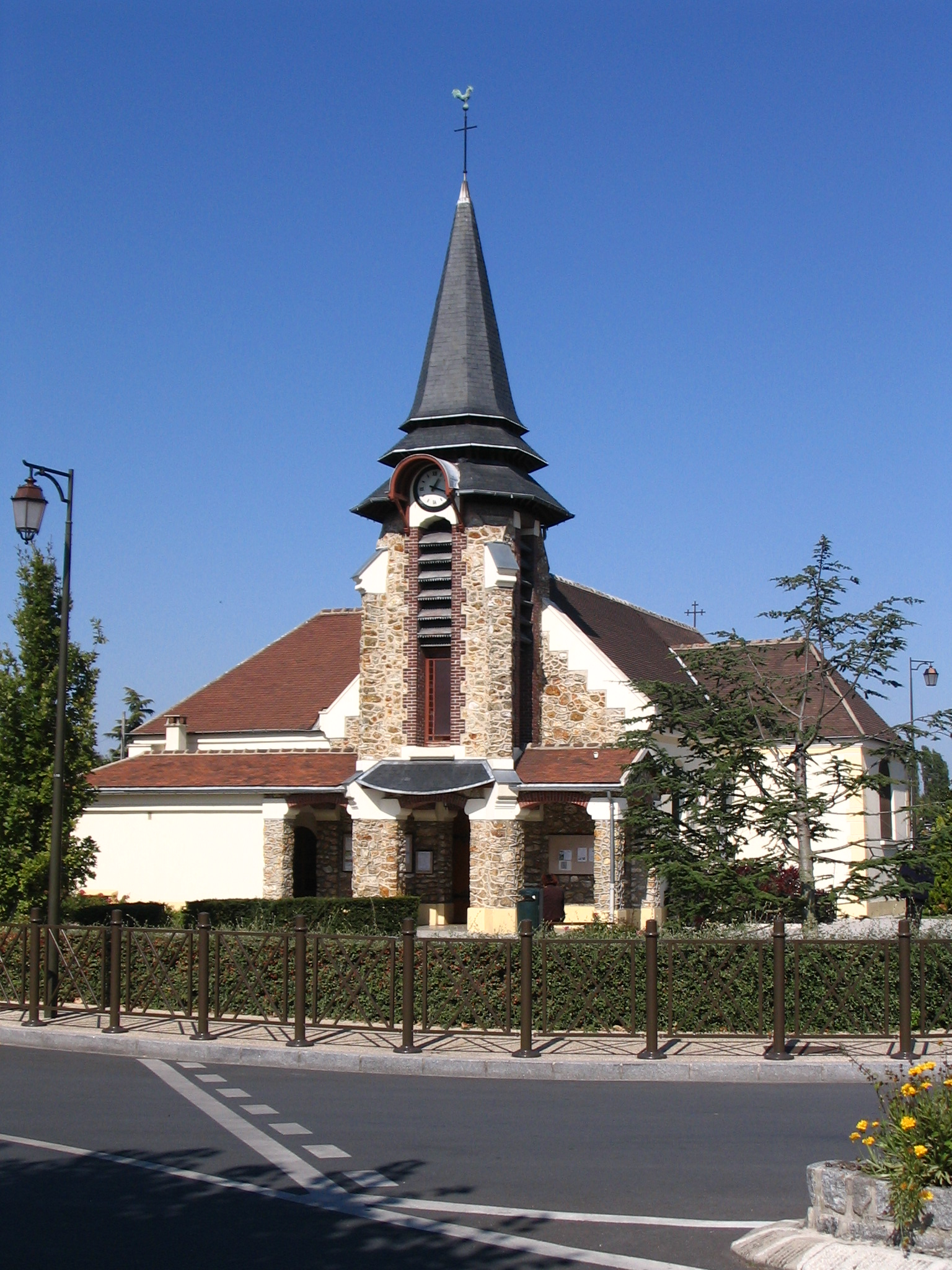 The church of Gournay-sur-Marne, Seine-Saint-Denis, France.